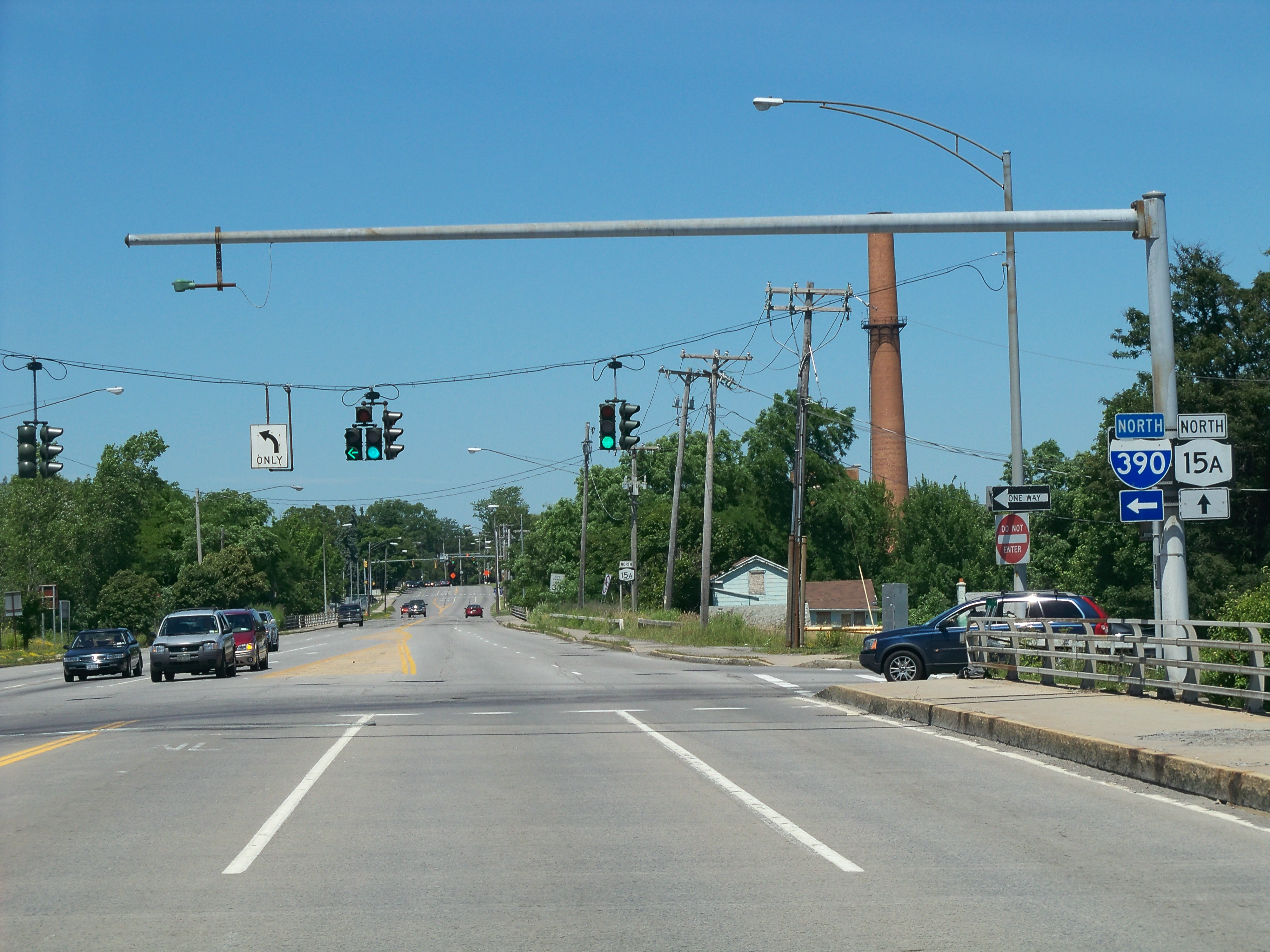 Northbound on New York State Route 15A at Interstate 390 in Brighton.